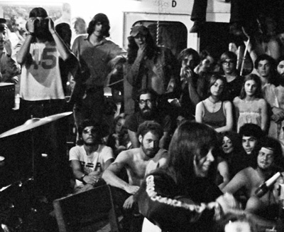 Melanie Safka on the "Mr Softee" free stage at the Powder Ridge Rock Festival.